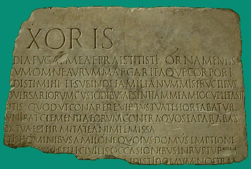 Fragment of tombstone Laudatio Turiae